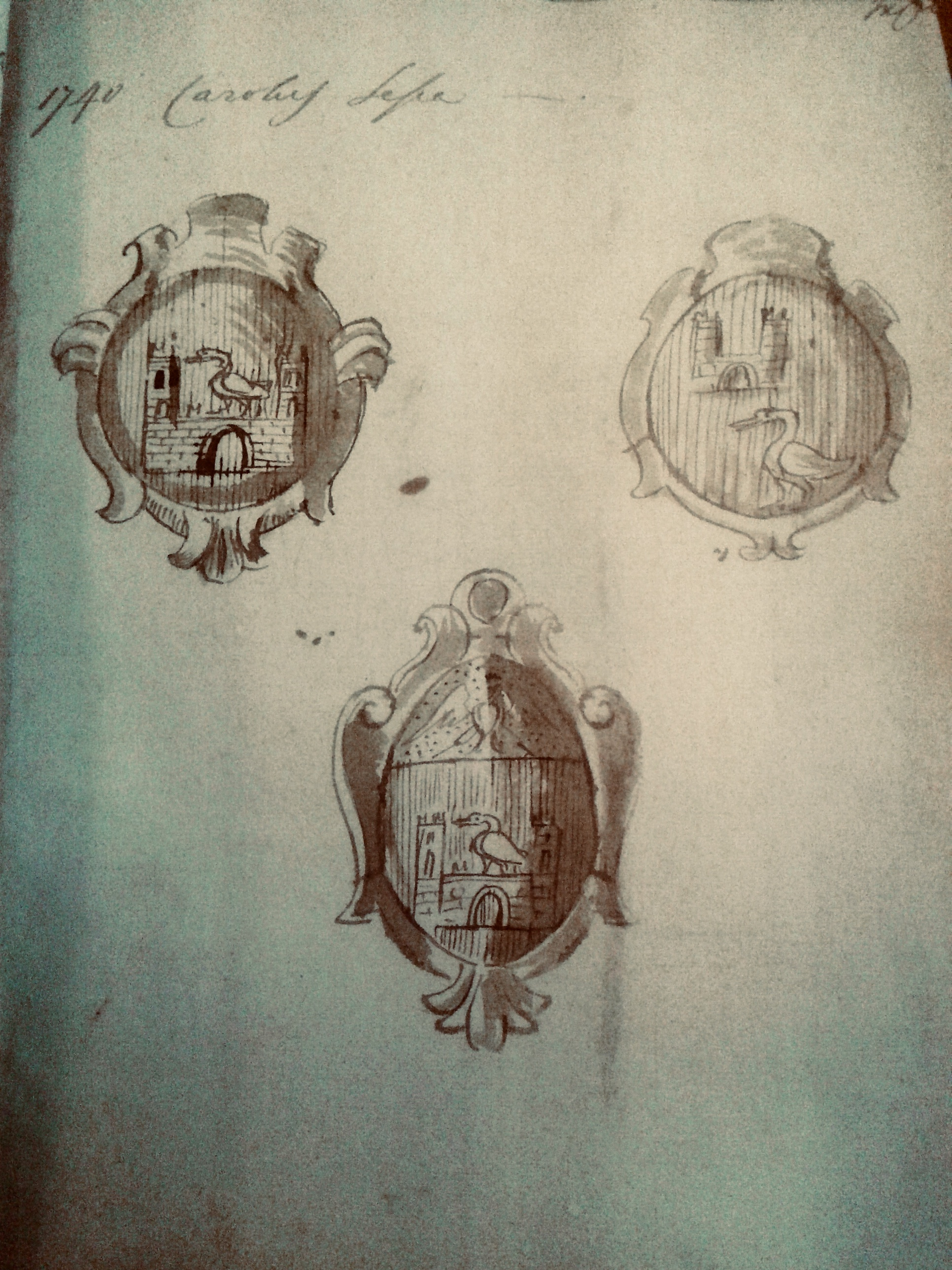 Coat of arms of (de) Sessa family